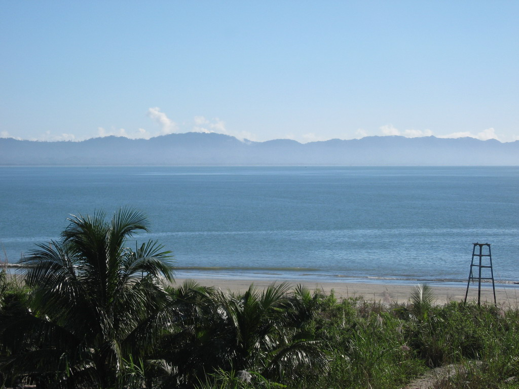 Skyline of Saint Martin's Island, Bangladesh.